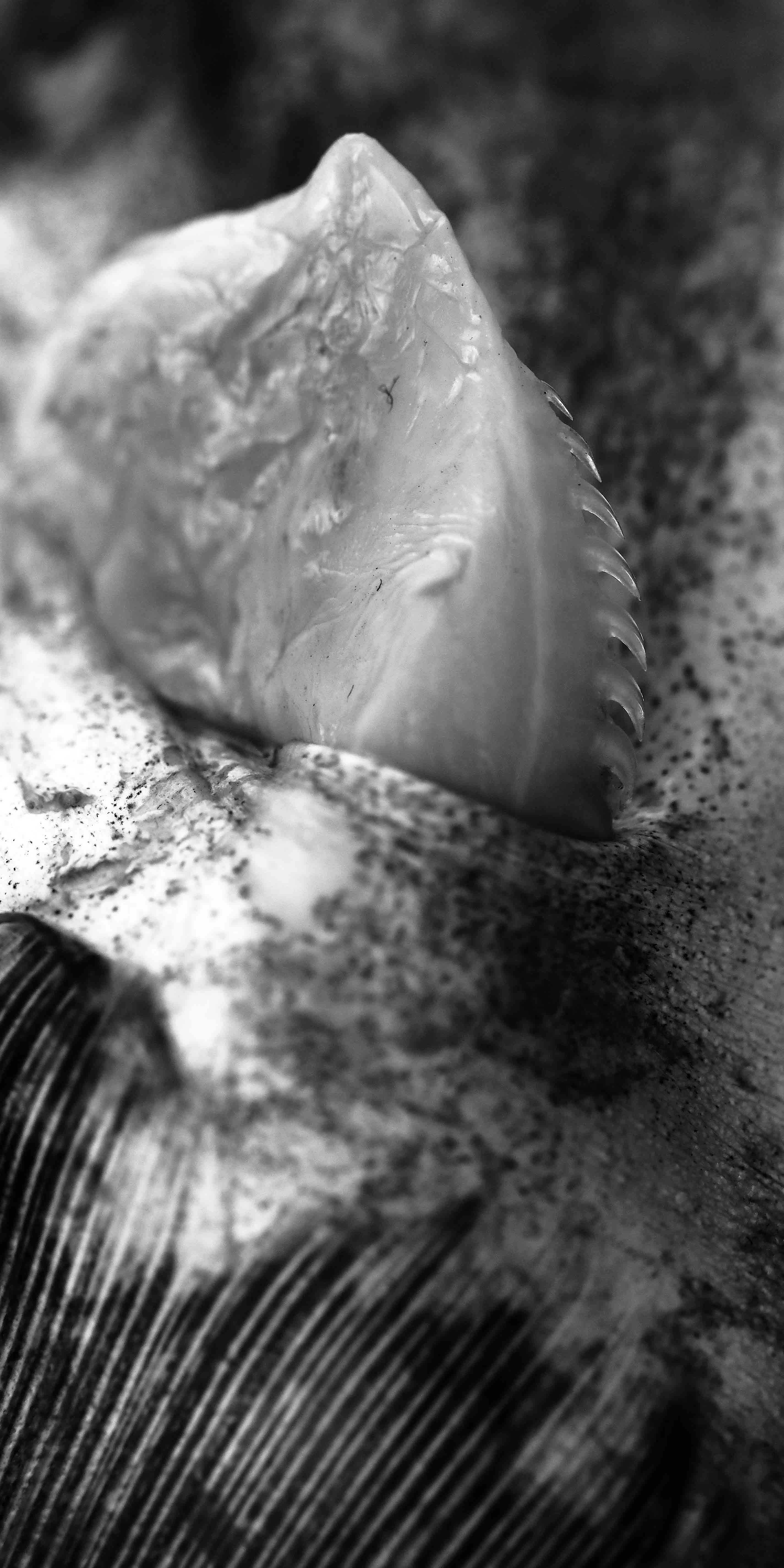 blade tooth